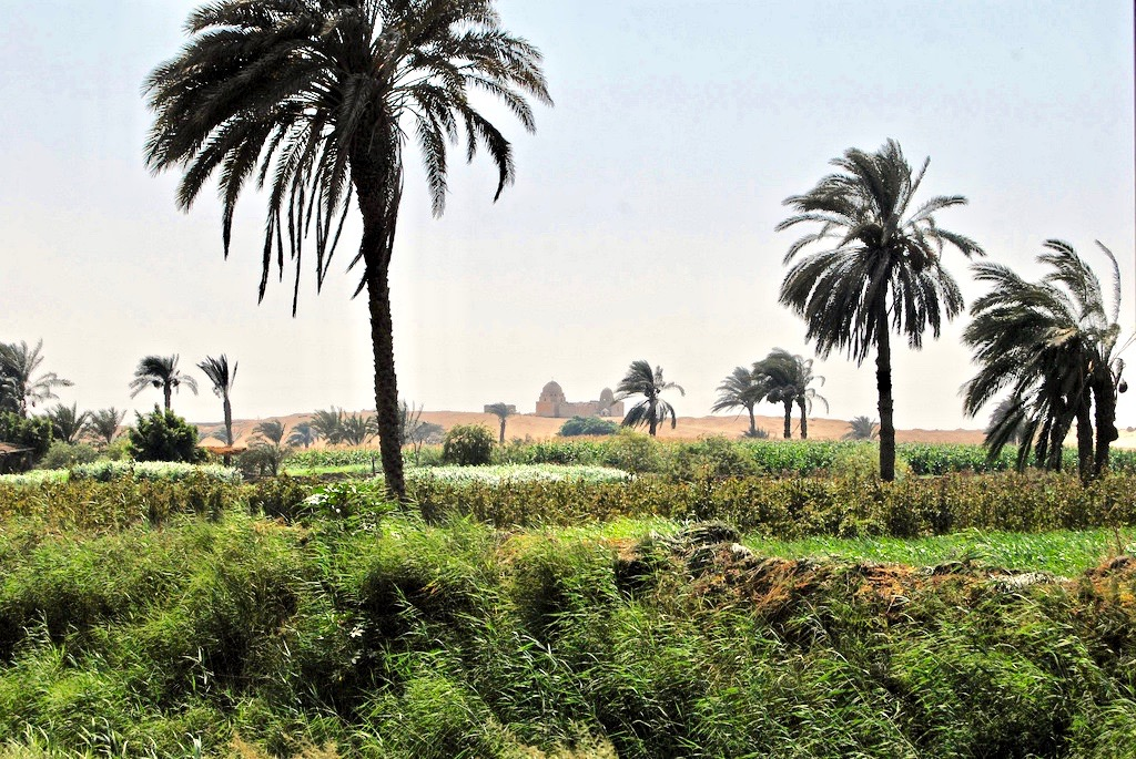 The Faiyum Oasis in Middle Egypt. The city of Itj-tawy, which was the political and administrative capital during the Middle Kingdom period of Egypt, was located very close to this oasis. Faiyum Oasis is located only about 130 kilometres southwest of Cairo.